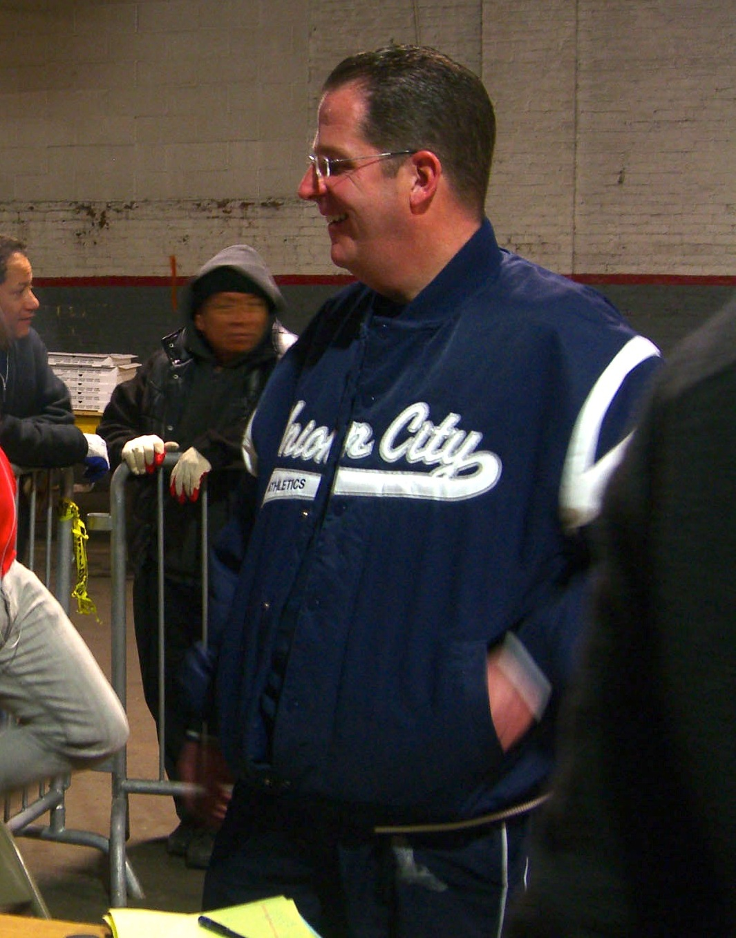 Union City, New Jersey Mayor Brian P. Stack (in the blue and white windbreaker) supervising volunteers at the Brian P. Stack Civic Association's annual free Thanksgiving turkey giveaway at the Union City Department of Public Works on Sunday, November 18, 2012. This photo was created by Luigi Novi. It is not in the public domain, and use of this file outside of the licensing terms is a copyright violation.